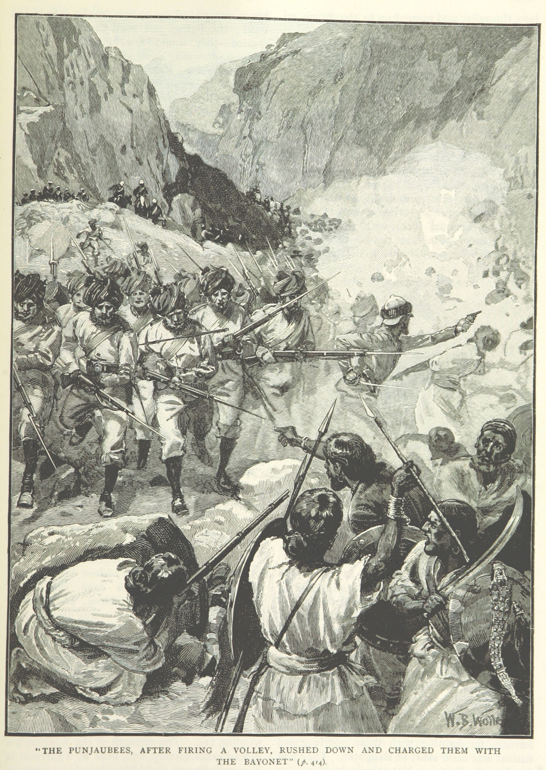 British Indian troops charge the Abyssinians at the April 1868 Battle of Magdala